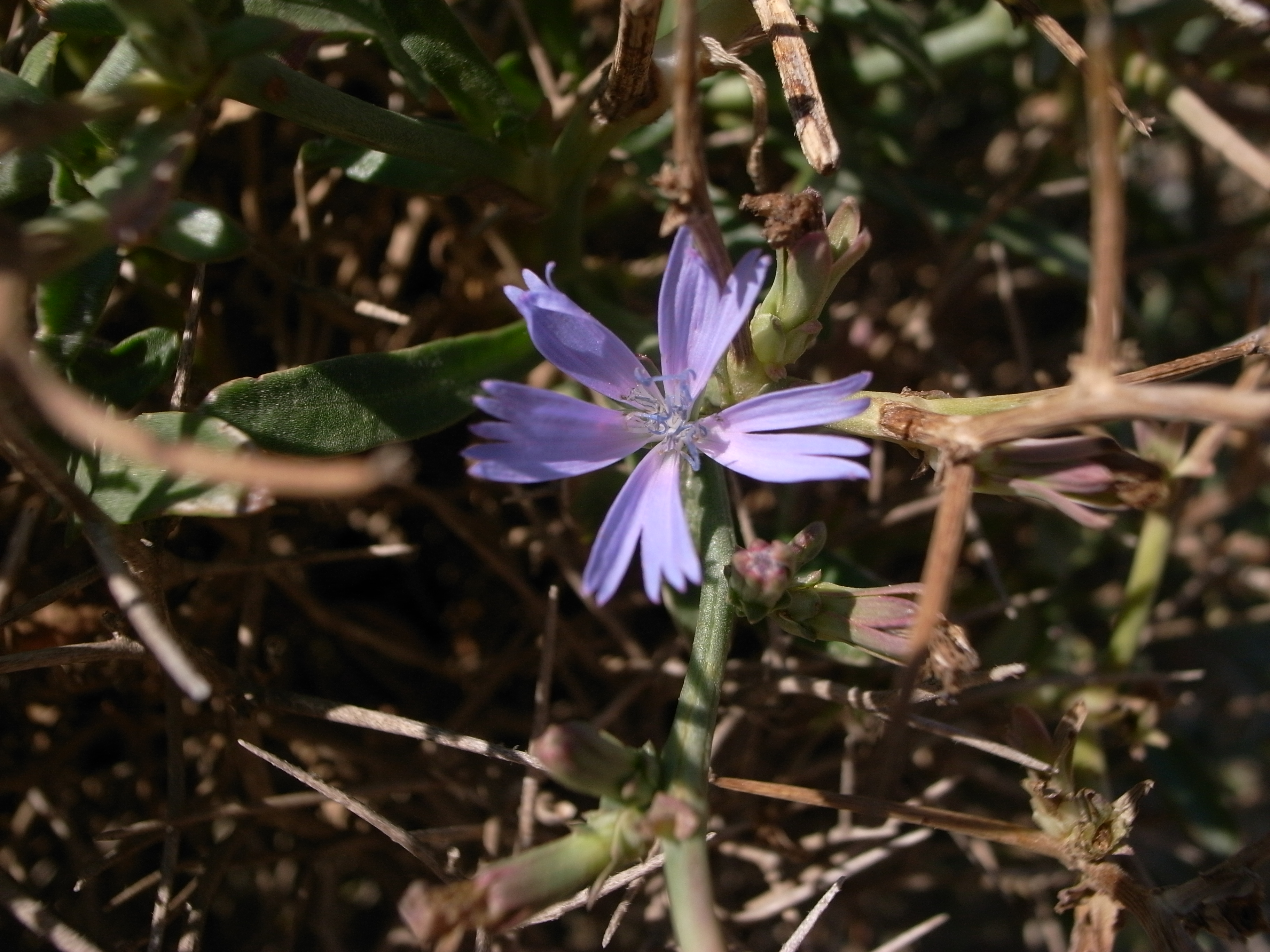 Cichorium spinosum, Pembroke Range, Malta